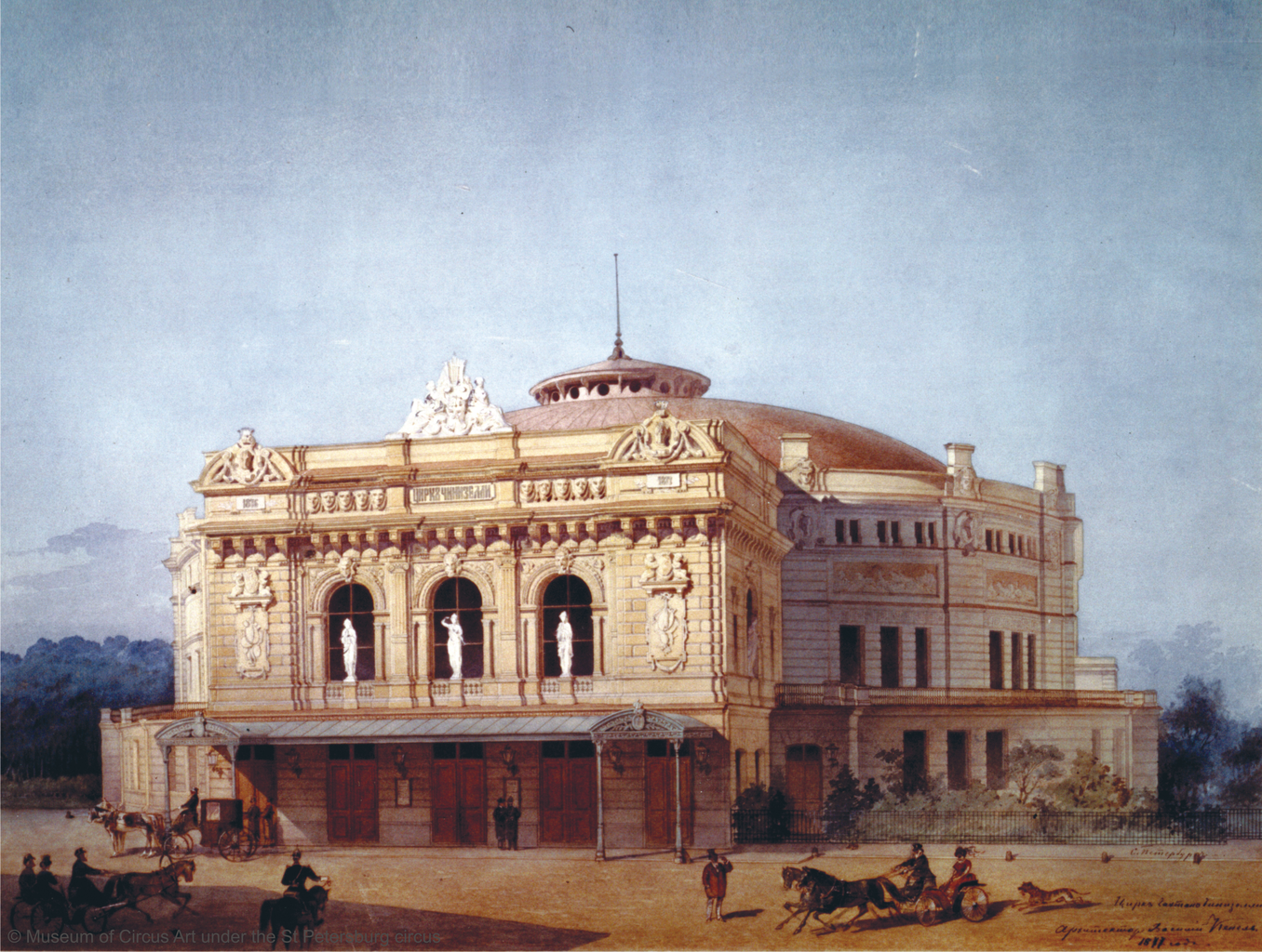 The Ciniselli Circus (now the Bolshoi Saint Petersburg State Circus) opened on December 26, 1877. The first stone structure in Russia purpose-built for the circus, it was regarded by many as the most beautiful circus building in Europe. The building was designed by architect Vasily Kenel (1834–93), who also produced this watercolor, which has his signature in the lower right-hand corner. The building was a unique engineering structure for its time, designed and built on the basis of the state-of-the-art engineering principles and methods. For the first time, inner supporting pillars were not used to support the vaulted roof, a record-breaking bay 49.7 meters in diameter, thus creating an unusual space effect. The statues on the facade were created by Italian sculptor Enrico Butti (1847–1932). The Ciniselli Circus became one of the main attractions of Saint Petersburg and was a paramount entertainment center of the Russian capital. It was also where the world’s first Museum of Circus Art was opened in 1928. Arenas; Carriages and carts; Circus; Circus Ciniselli; Horse-drawn vehicles; Street scenes